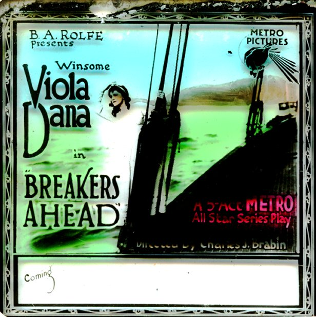 Lobby card for the 1918 film, "Breakers Ahead"